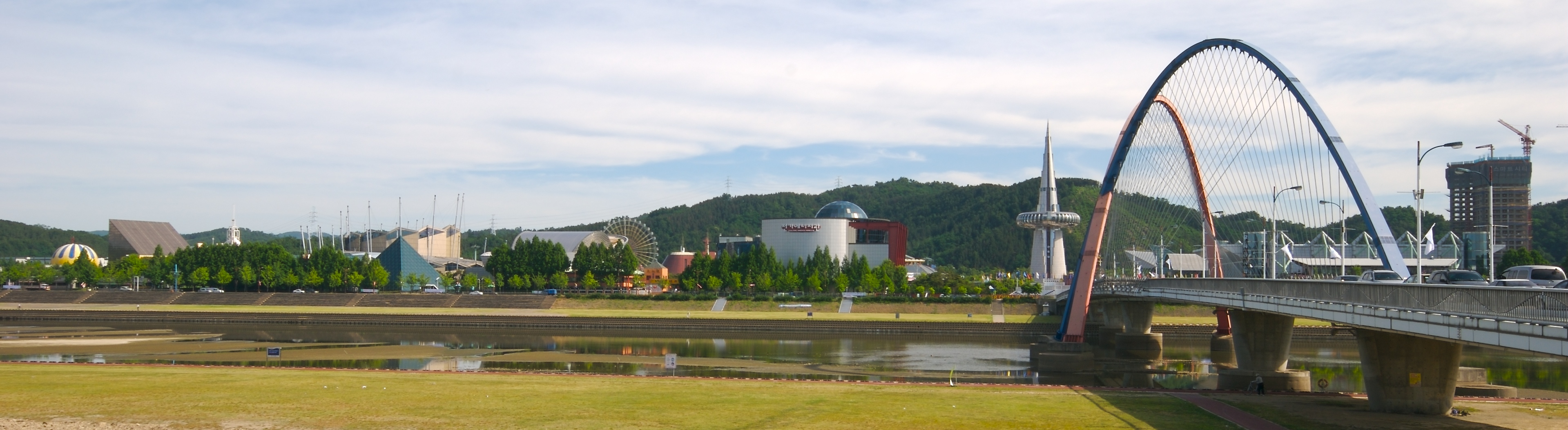 Photograph of the Expo Science Park in Daejeon, South Korea. It was taken from across Gapcheon.